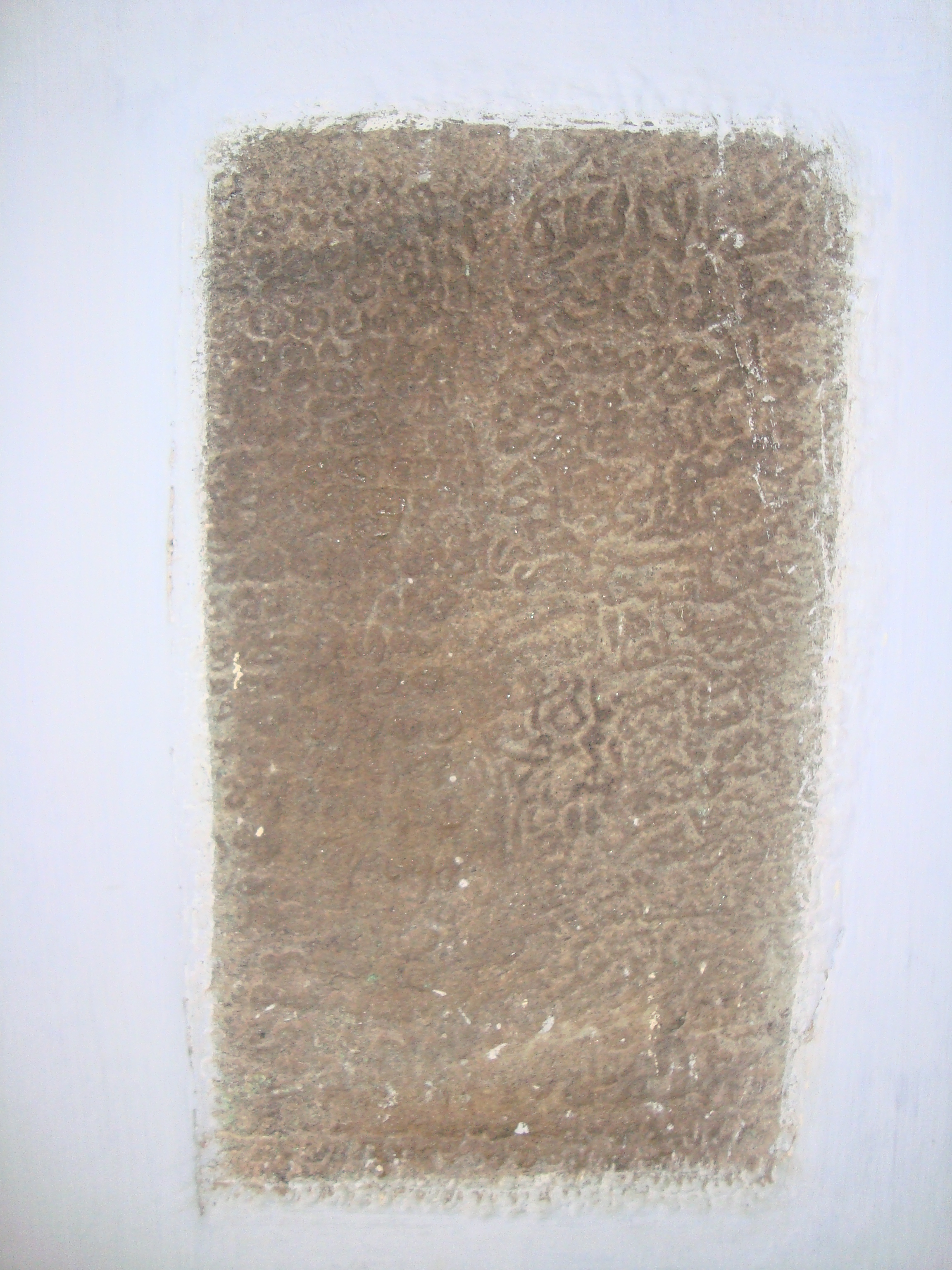 Muccunti Mosque Inscription (Calicut, India). The inscription is undated, but can be positioned on paleographic grounds to the 13th century CE. The content is divided on functional grounds between old Malayalam and Arabic. The concluding portion is in Arabic, while the functional portion recording the specific details of the donation is in old Malayalam. The script of the old Malayalam portion is Vateluttu, a type of medieval script closely related to modern Malayalam and Tamil. The letters are not carved into the stone surface – like the usual Kodungallur Chera style – but are raised on the stone in imitation of the standard practice in Islamic inscriptions